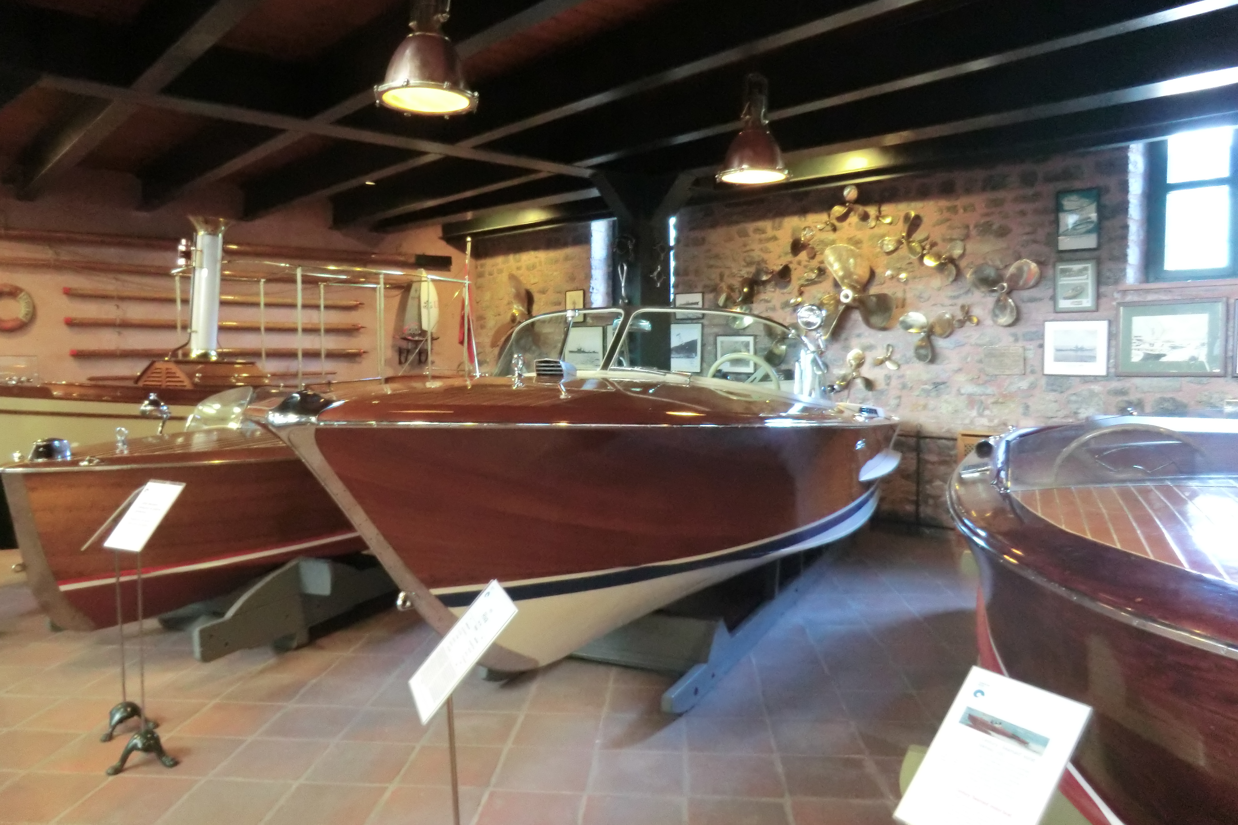 Riva Olympic at Rahmi M. Koç Hasköy of Istanbul